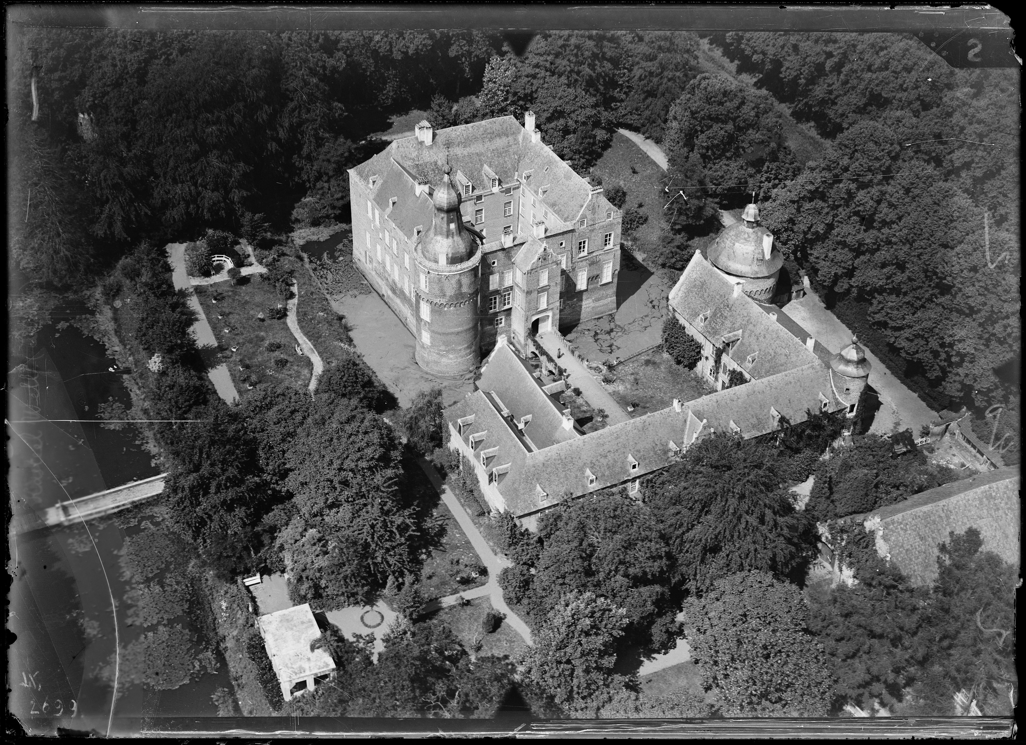 Aerial photograph of Well, The Netherlands